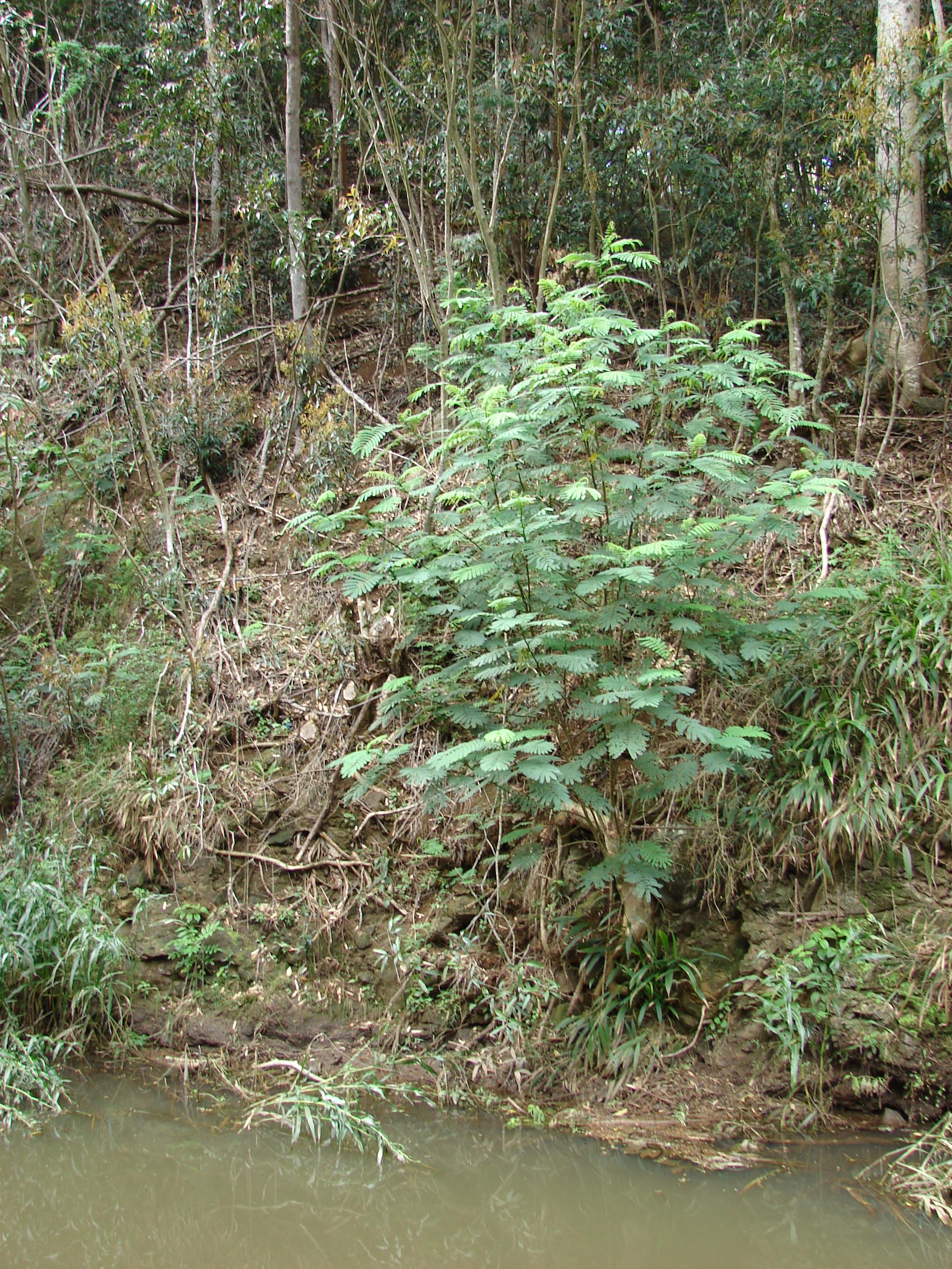 Falcataria moluccana (small tree). Location: Maui, Peahi reservoir Haiku